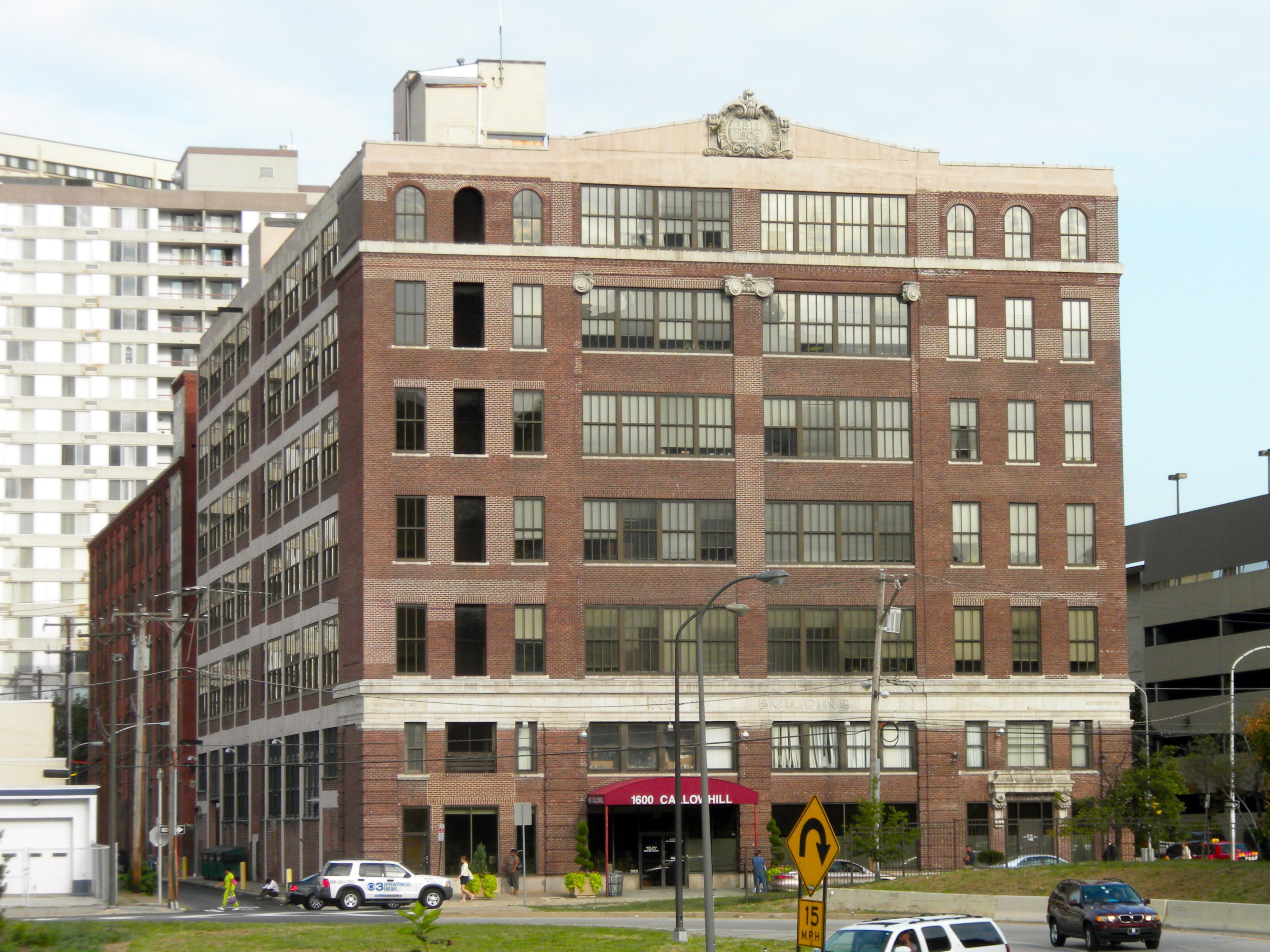 Middishade Clothing Factory on the NRHP since January 6, 1987. At 1600 Callowhill St., Philadelphia in the Franklintown neighborhood of North Philly. Now the Immigration office of the government in Philly.